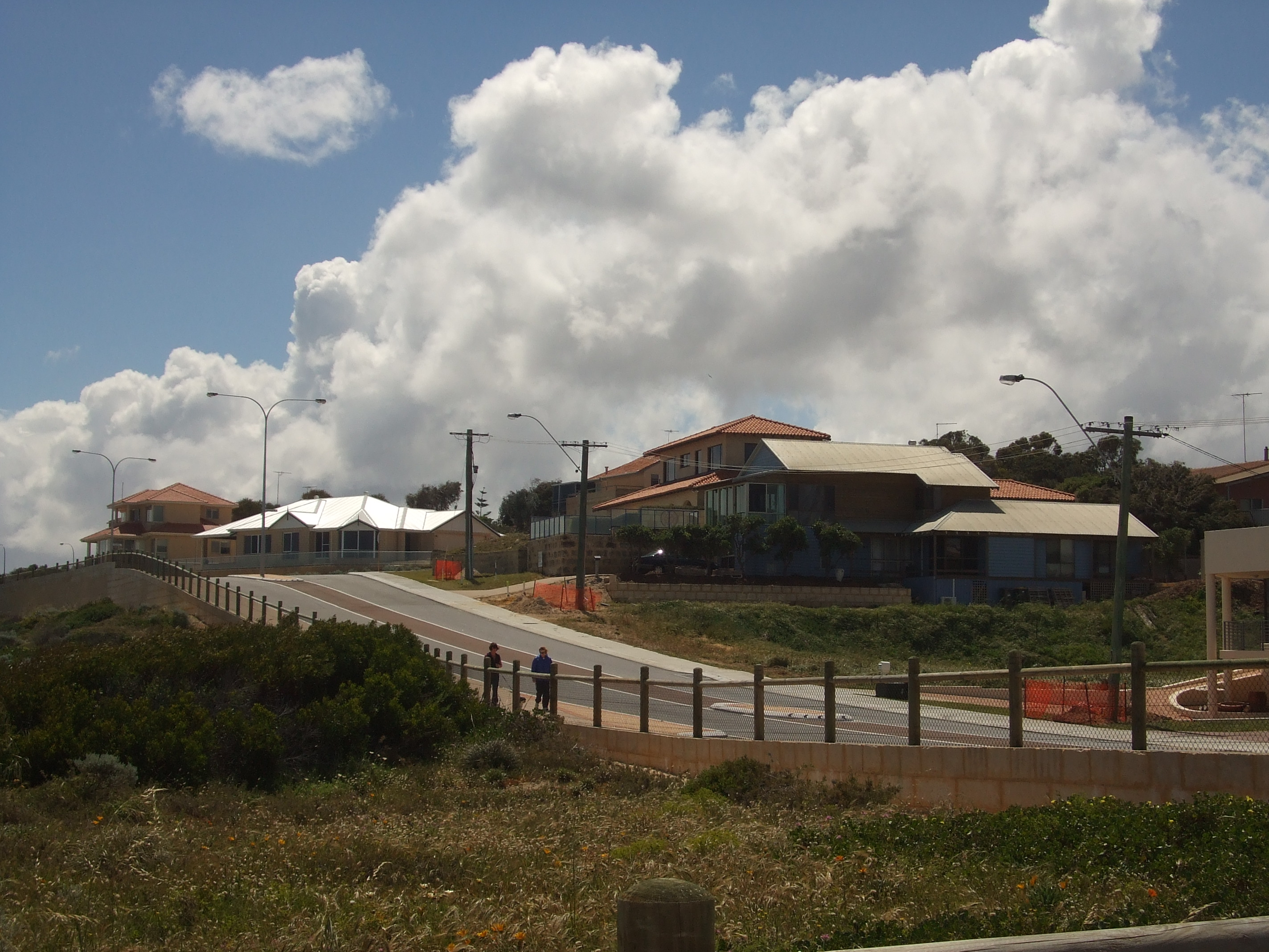 Ocean Drive, Quinns Rocks, from the lookout near Mary Street.